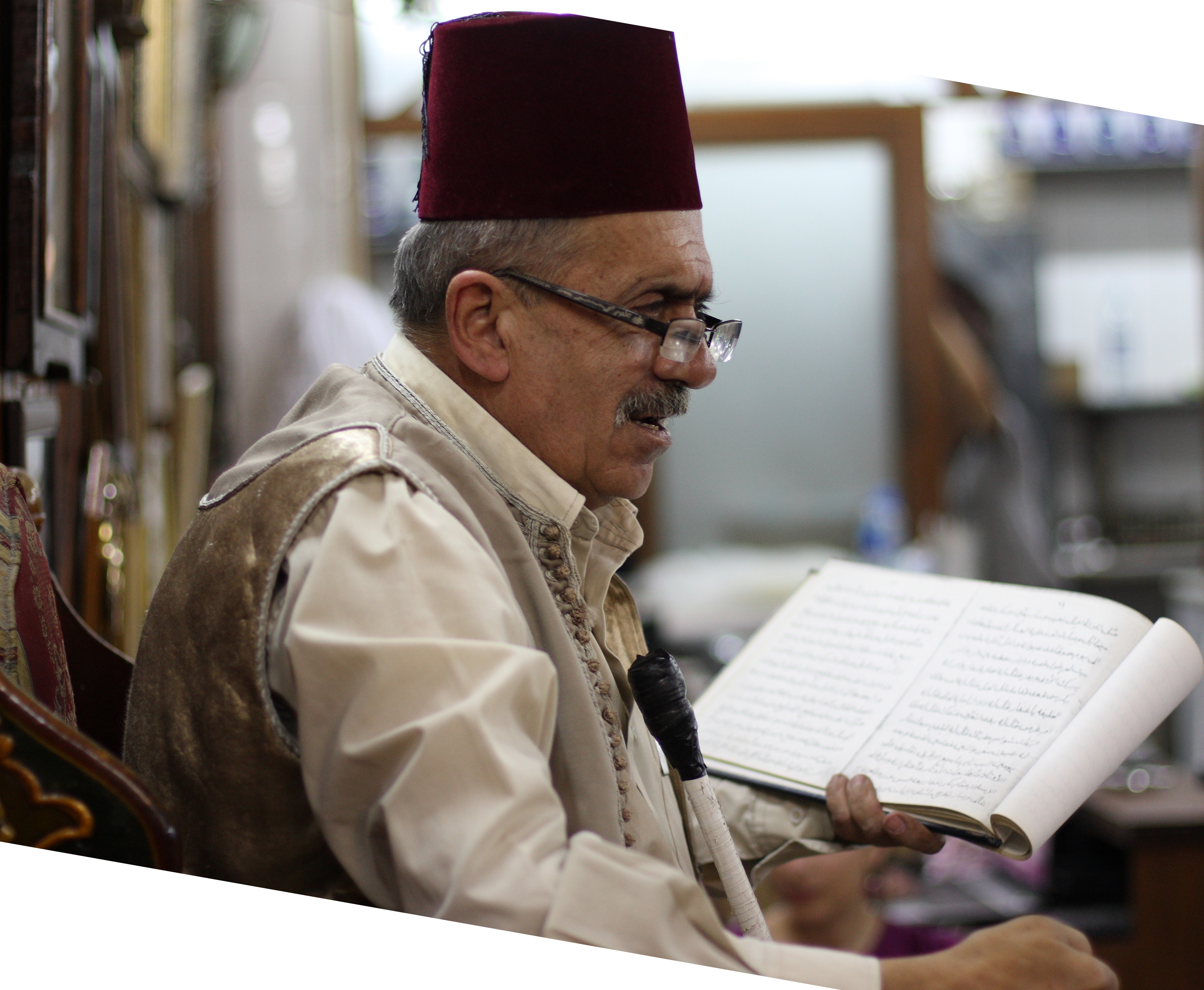 Abu Shady, the last professional hakawati (traditional story teller) in